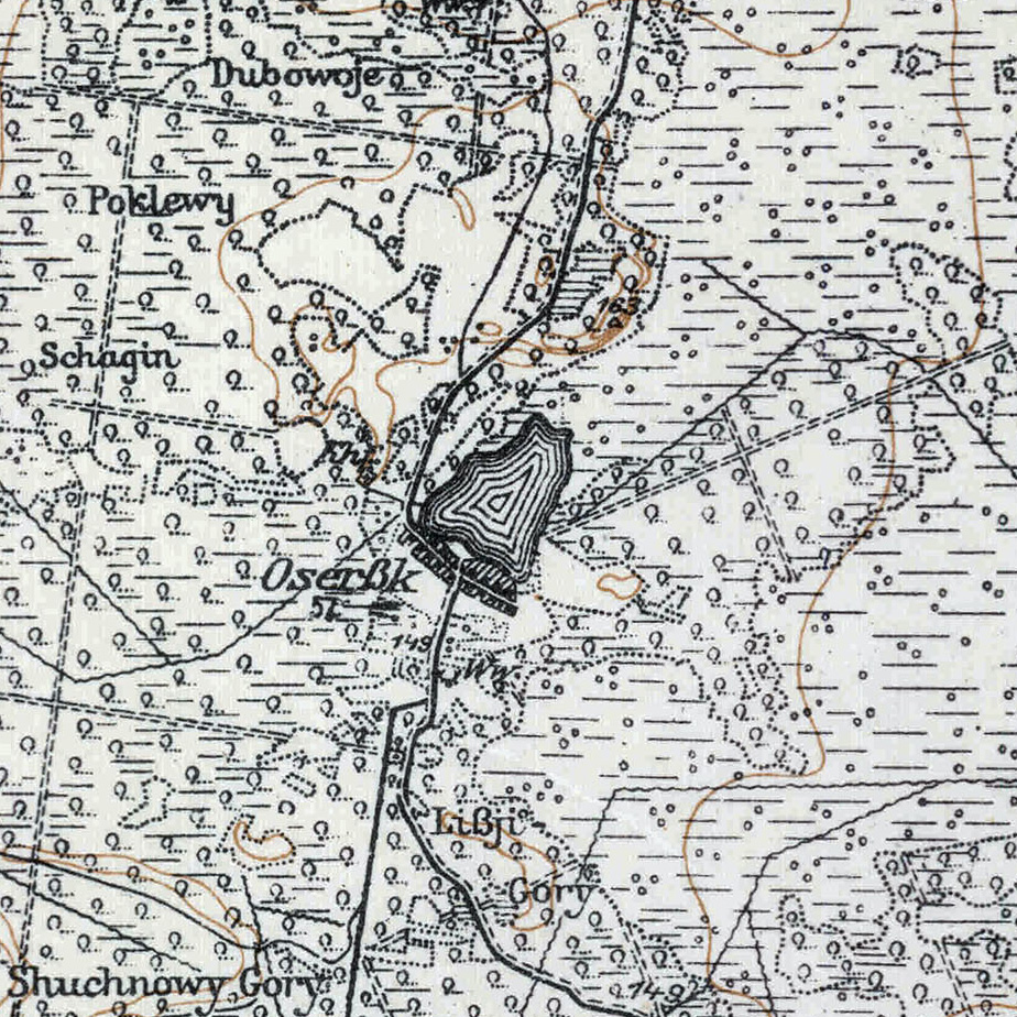 Ozersk on the map "Karte des Westlichen Russlands", T 35, 1917. According to Digital Repository of Scientific Institutes and Kujawsko-Pomorska Digital Library the map is in the public domain.